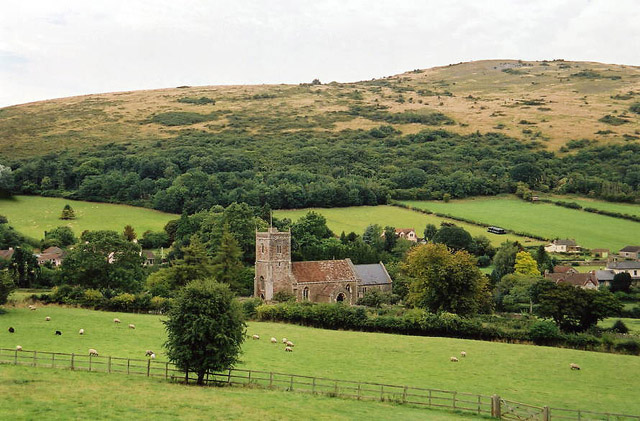 Compton Bishop: church and village